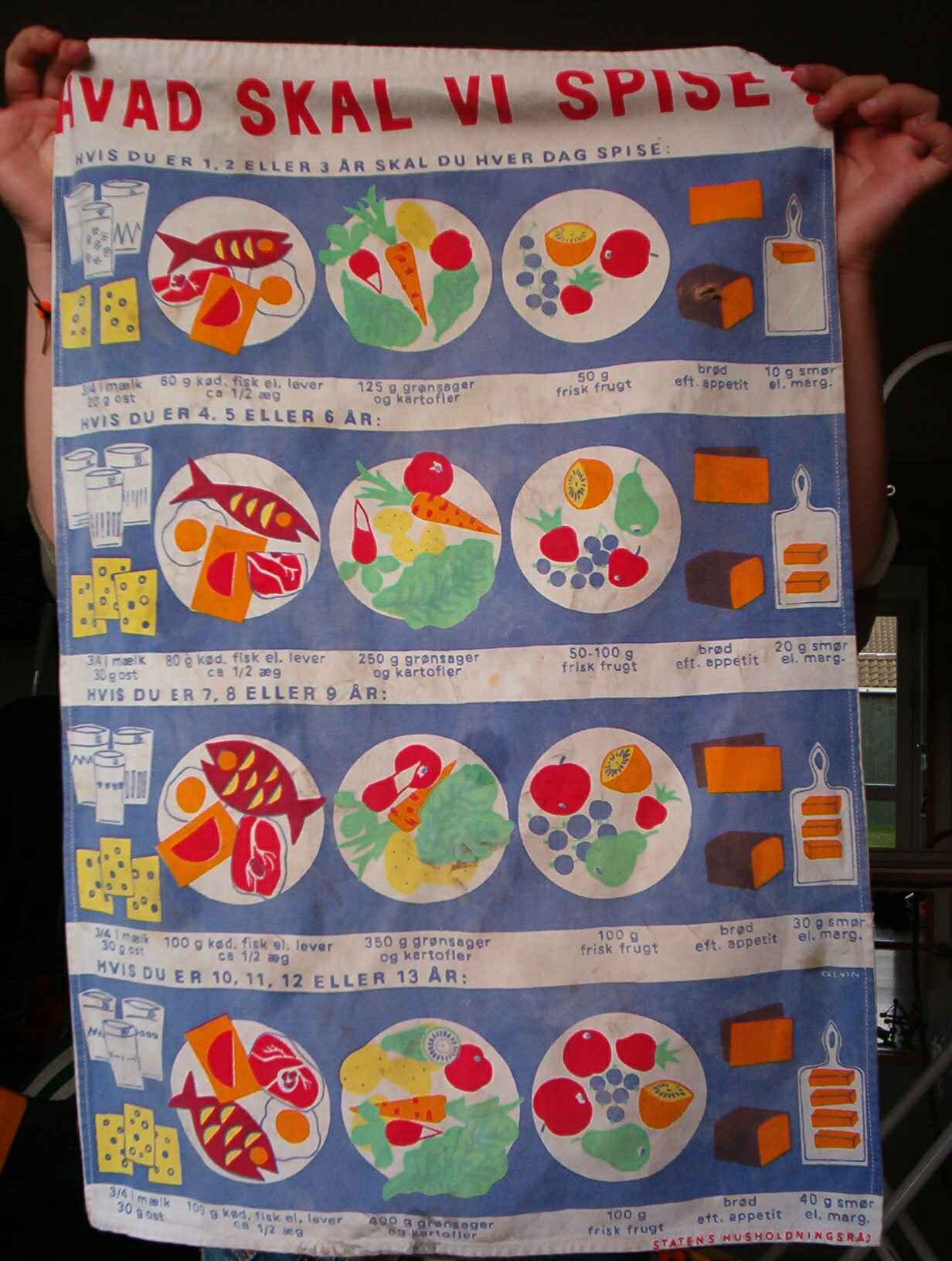 Dietary advice, Denmark